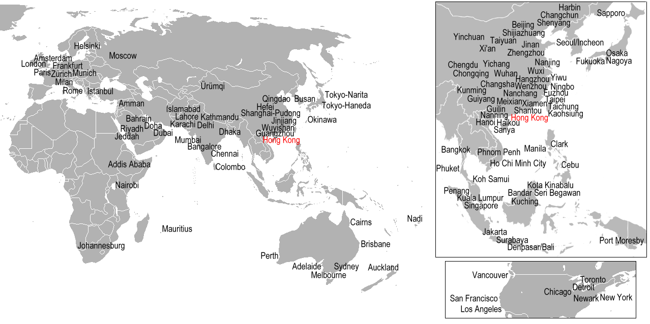 Direct international flights with HKG